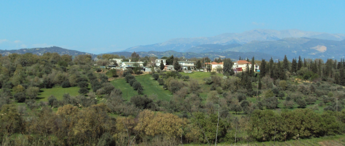 View of Kounelaiika village, Achaia, Greece. The foto was taken from Pimenochori village (Boudoureika).